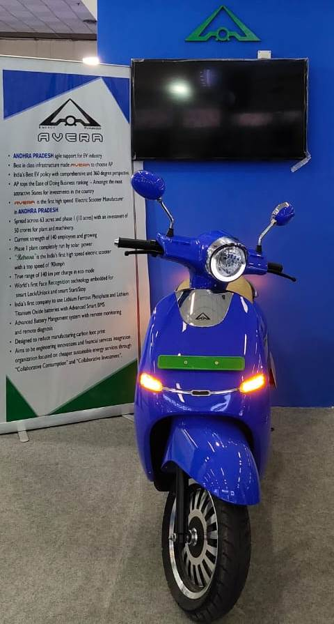 AVERA displayed RETROSA at Auto Expo 2020